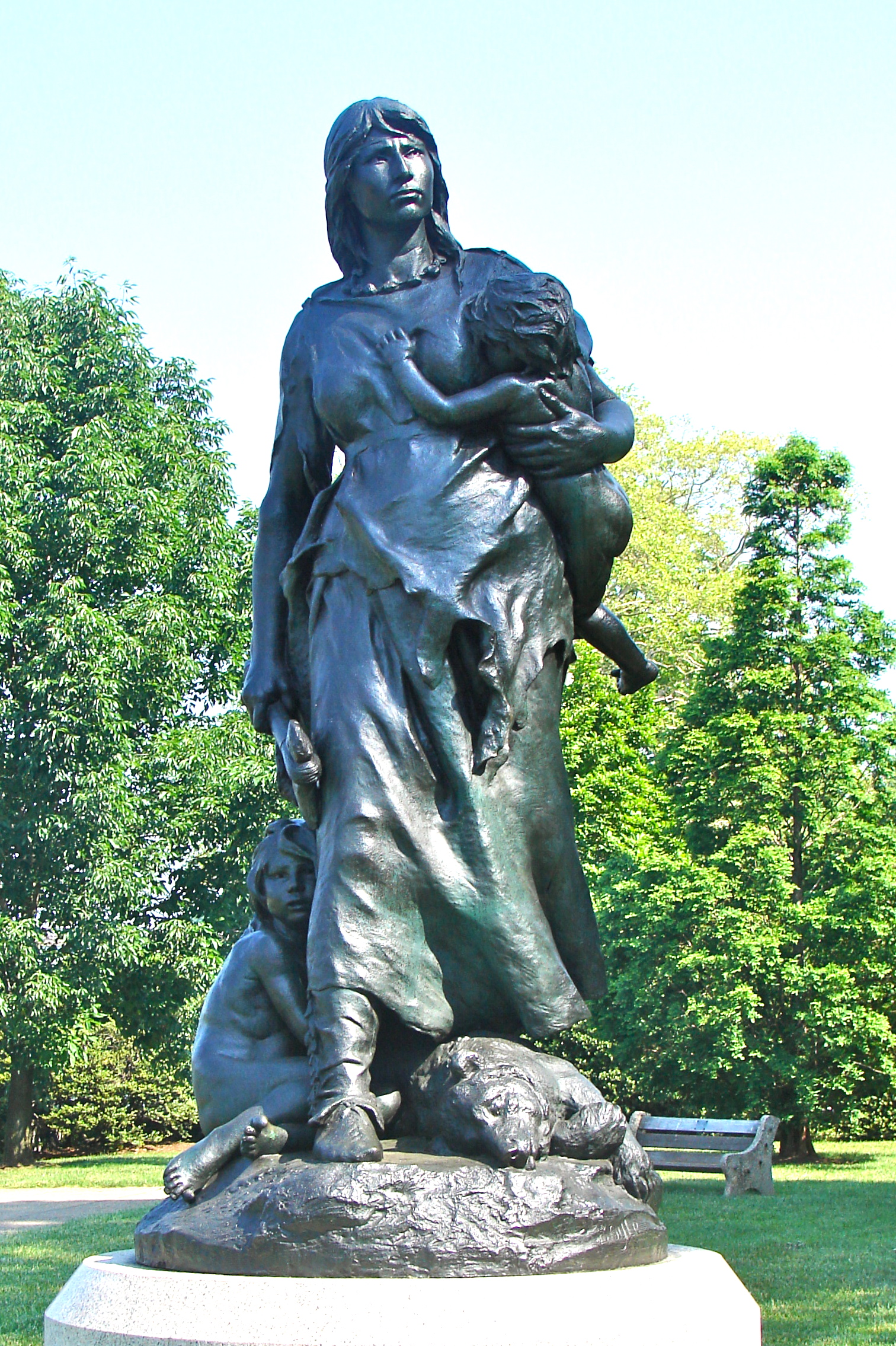 1887 statue "Stone Age in America" by John J. Boyle, a student of Thomas Eakins, and later at the Ecole des Beaux Arts in Paris. Commissioned by the Fairmount Park Art Association. Height 7’6″ (base 4’2″). Initially exhibited in Boyle's own studio. Installed near Sweetbriar Mansion in 1888, sent to Chicago for exhibition at the World’s Columbian Exposition in 1893, then returned to its original location. Relocated to a site near the Ellen Phillips Samuel Memorial in 1985.